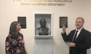 Bust of Dr. Edgar Housepian (Էդգար Հովսեփյան) at the Edgar Housepian Neurology and Neurosurgery Center at Arabkir Plus Medical Center in Yerevan, sculpted by his daughter Jean Housepian (seen here with the bust and her brother Dr. David Hovsepian [sic])